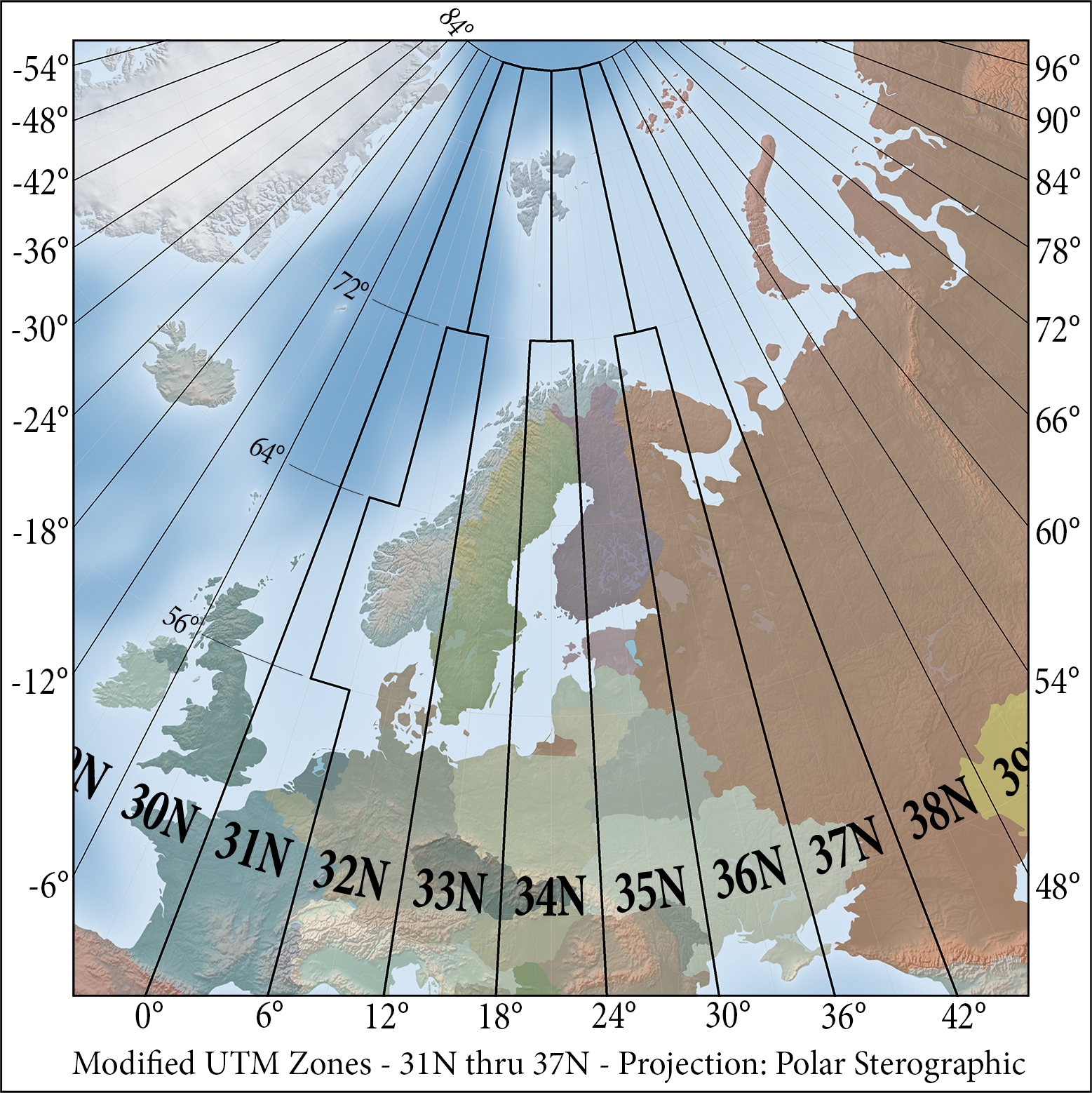 Universal Transverse Mercator (UTM) Grid Zones 31N thru 37N differ from the standard 6° wide by 84° for the northern hemisphere, in part to accommodate the southern half of the Kingdom of Norway. For more on its history, see Clifford J. Mugnier's article on Grids & Datums of The Kingdom of Norway that appeared in the October 1999 issue of PE&RS